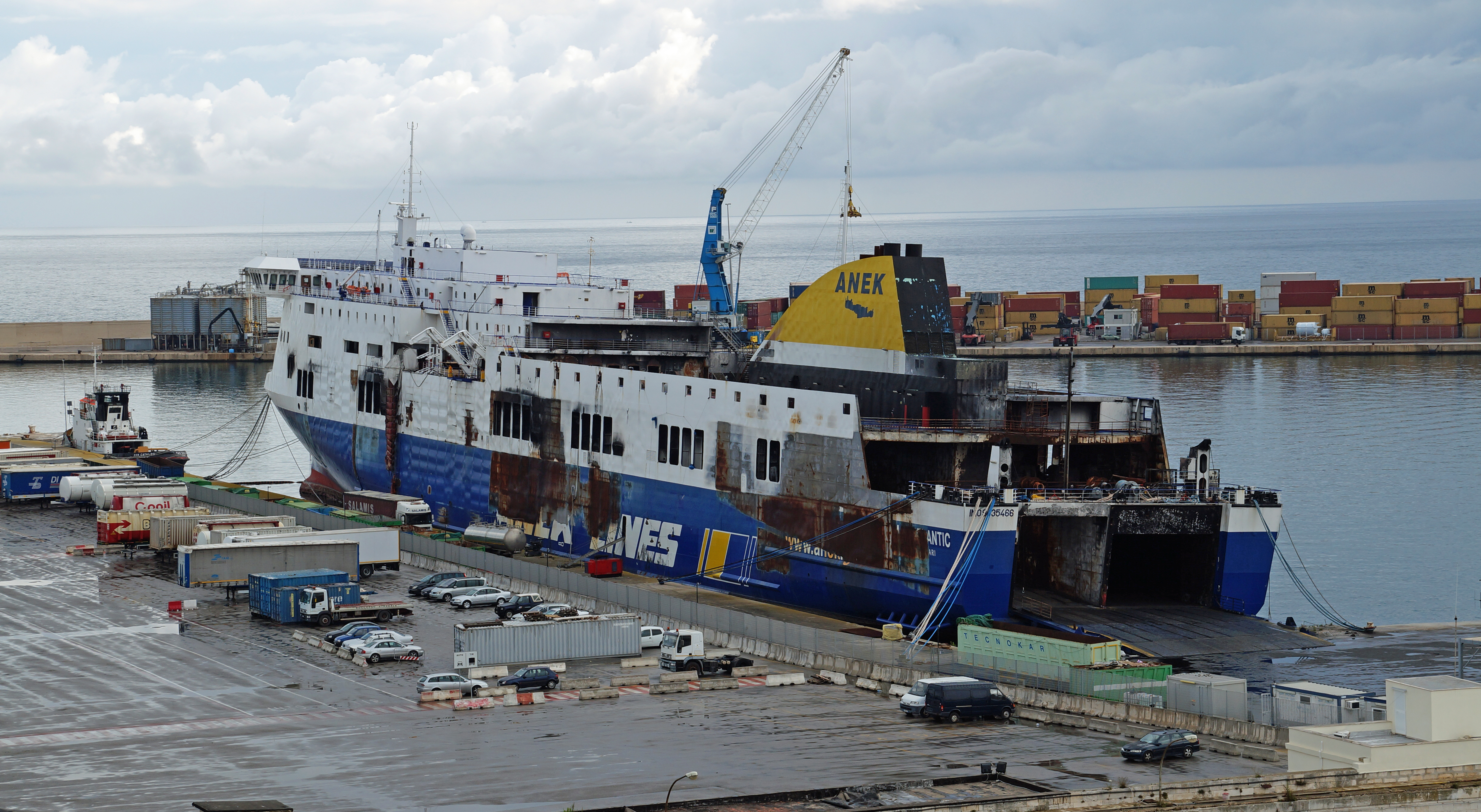 Norman Atlantic in the harbour of Bari in May 2016